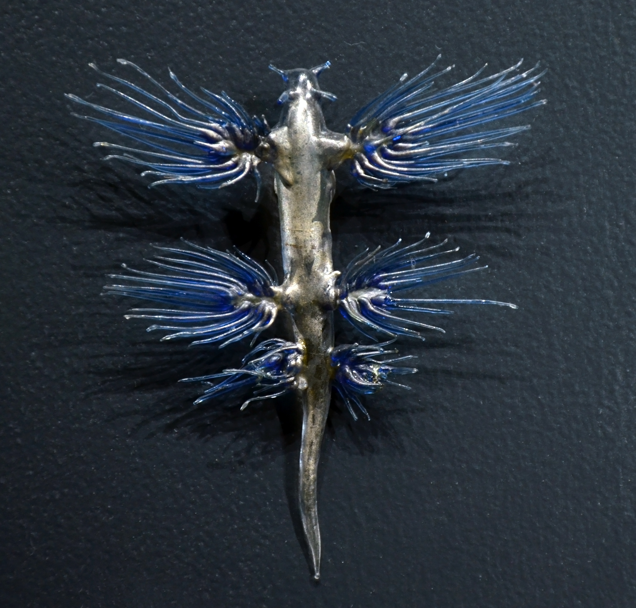 Blaschka glass model in the Muséum d'histoire naturelle de Genève : .Glaucus atlanticus